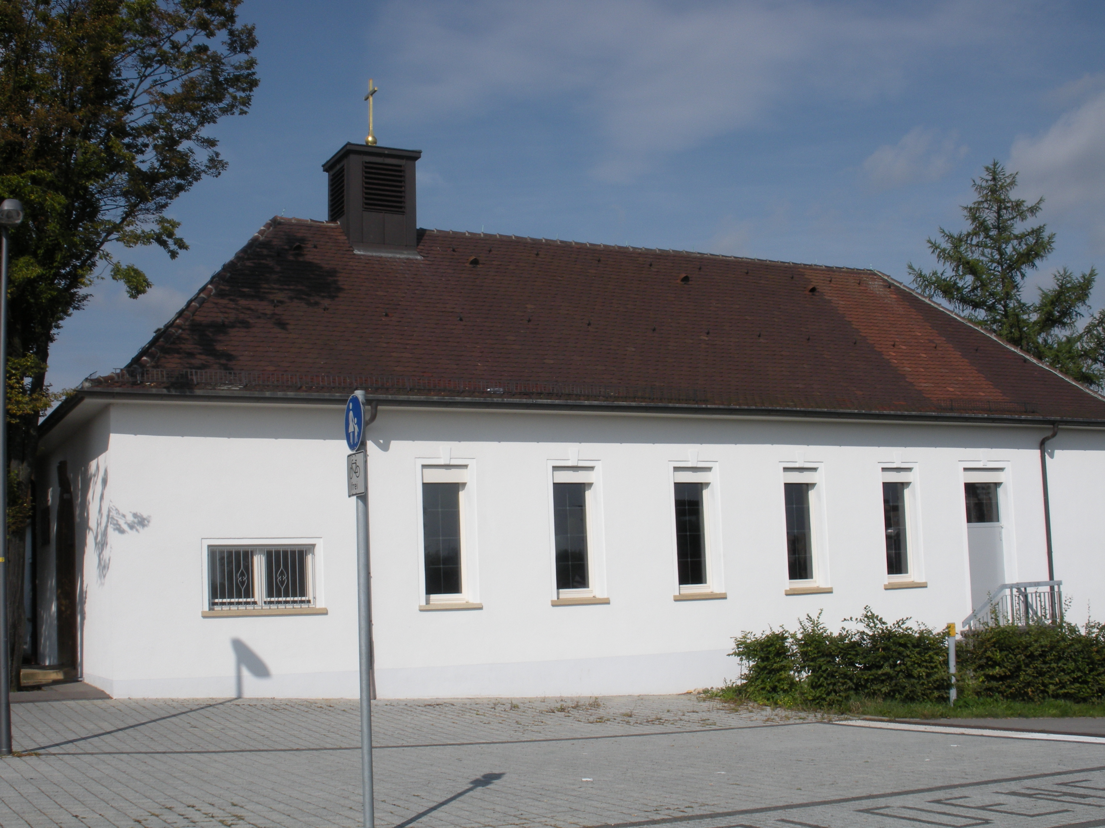 Protestant Church in Stuttgart-Steinhaldenfeld